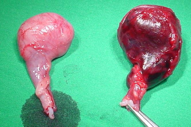 after torsion resected testicles in a dog. left: normal testicle, right: hemorrhagic infarcted testicle